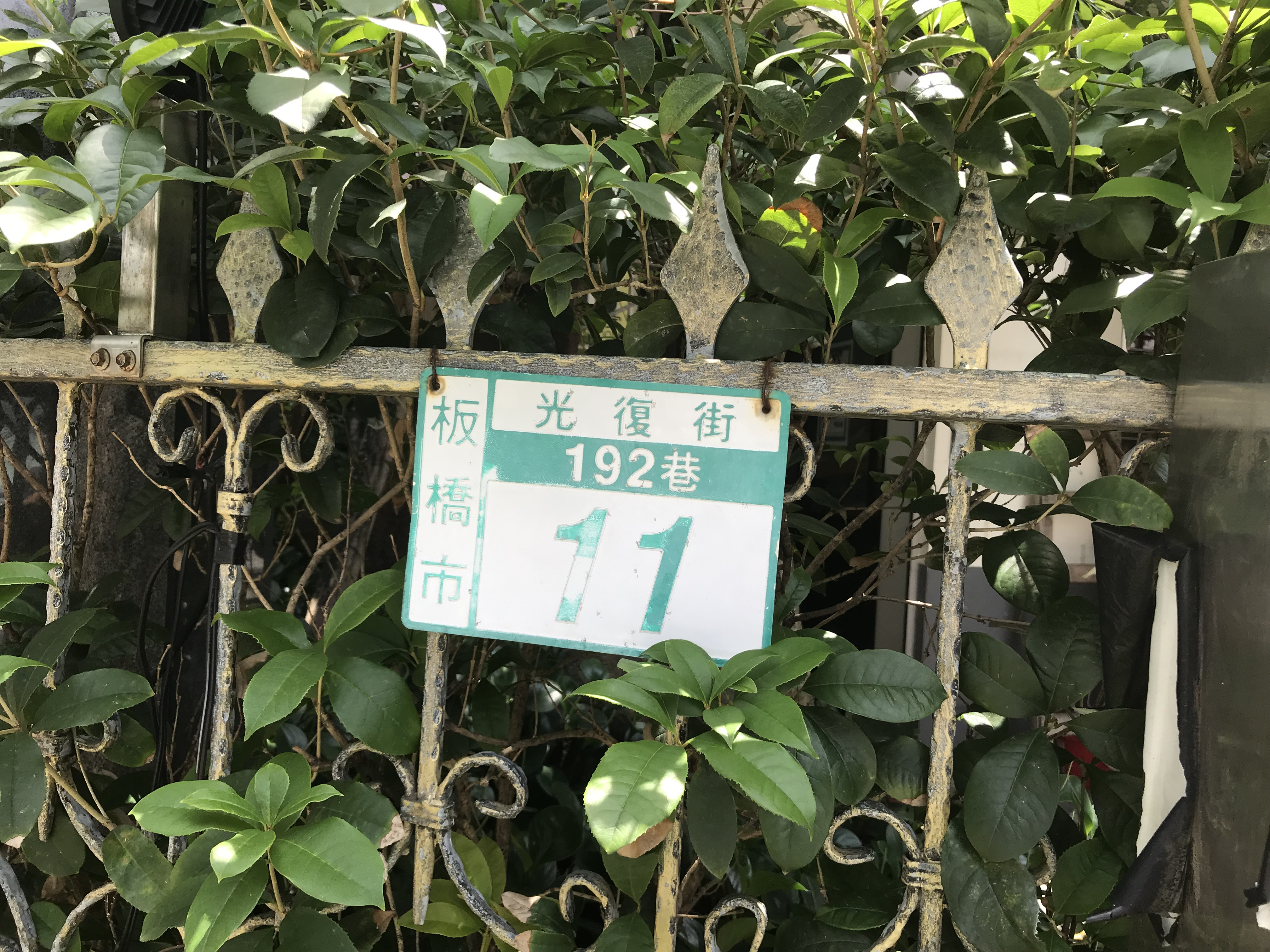 中文（台灣）: 板橋真武廟門牌11 (house number)